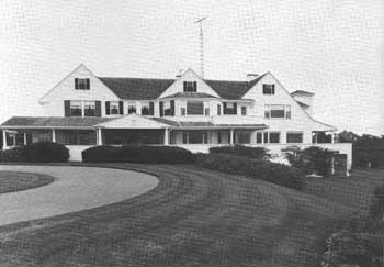 Kennedy compound image